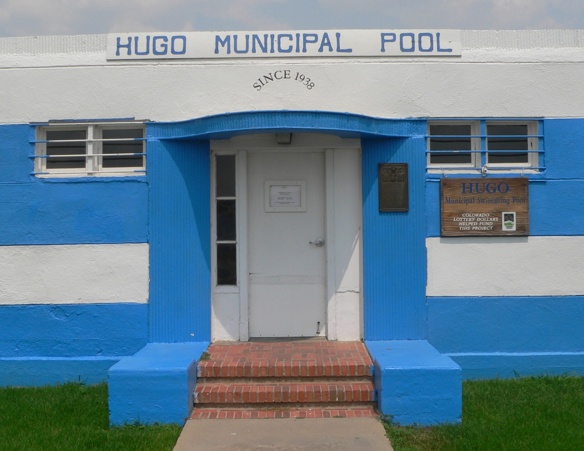 Entrance of Hugo Municipal Pool, located at 4th Street (U.S. Highway 40/287) and 6th Avenue in Hugo, Colorado.